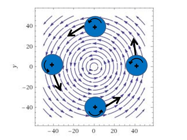 Ilustração do Rotacional de um campo vetorial